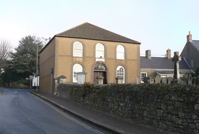 Bethel Baptist Church, Llantwit Major